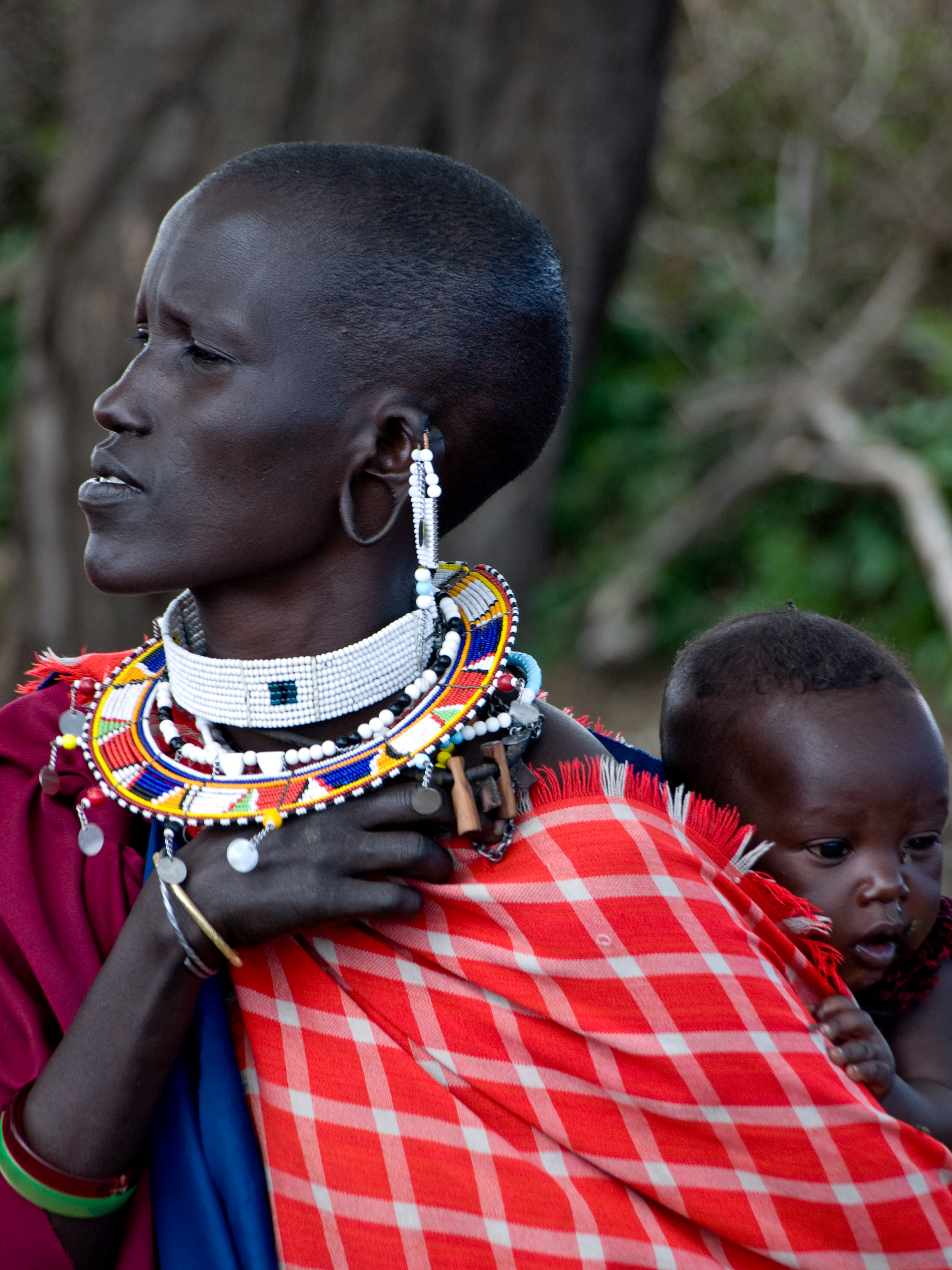 Maasai woman carrying her baby in traditional clothing and jewellery in the Serengeti National Park, Tanzania